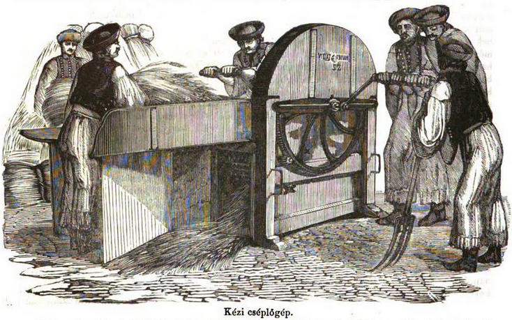 Thresher